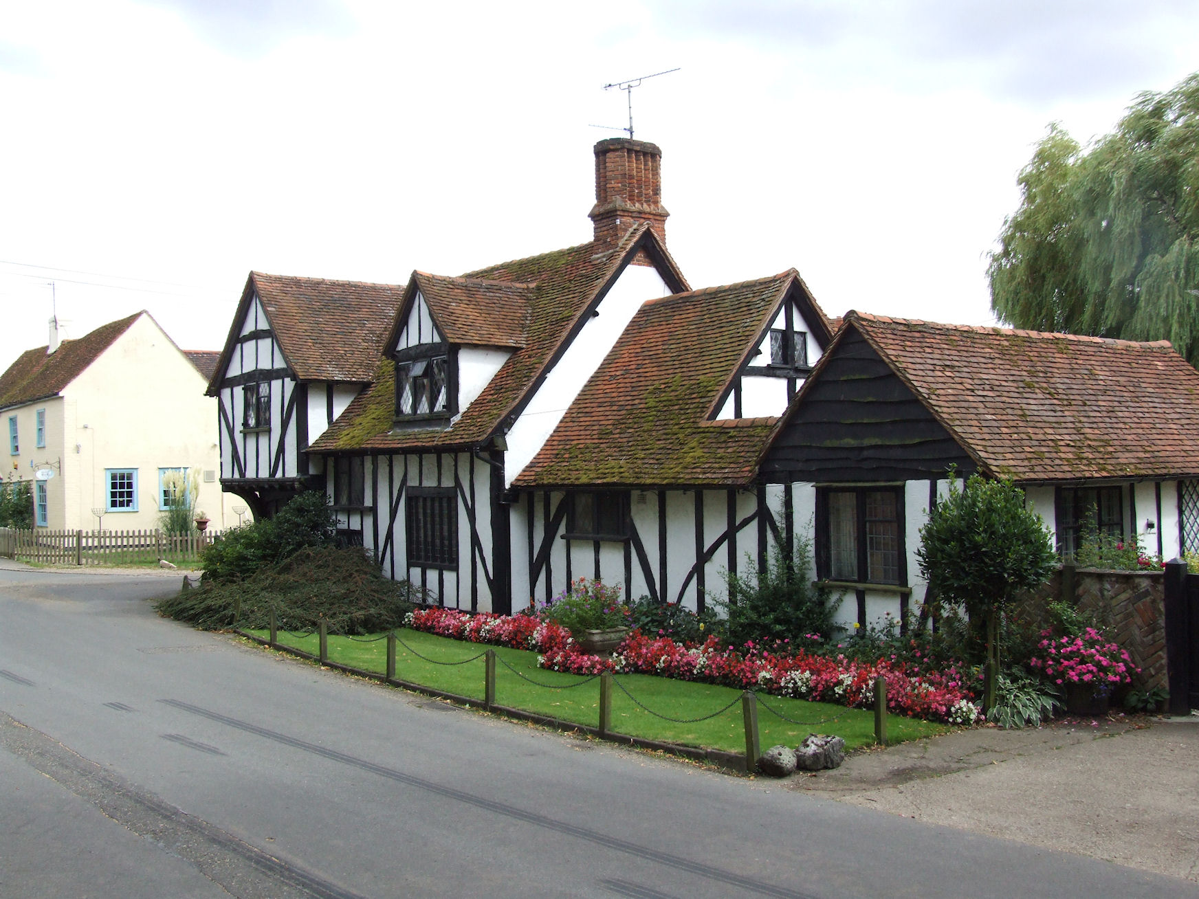 A cottage opposite the church at Easthorpe, Essex